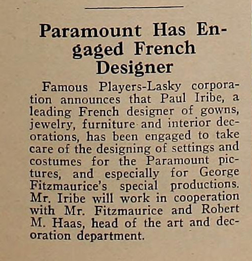 Article in Motion Picture News